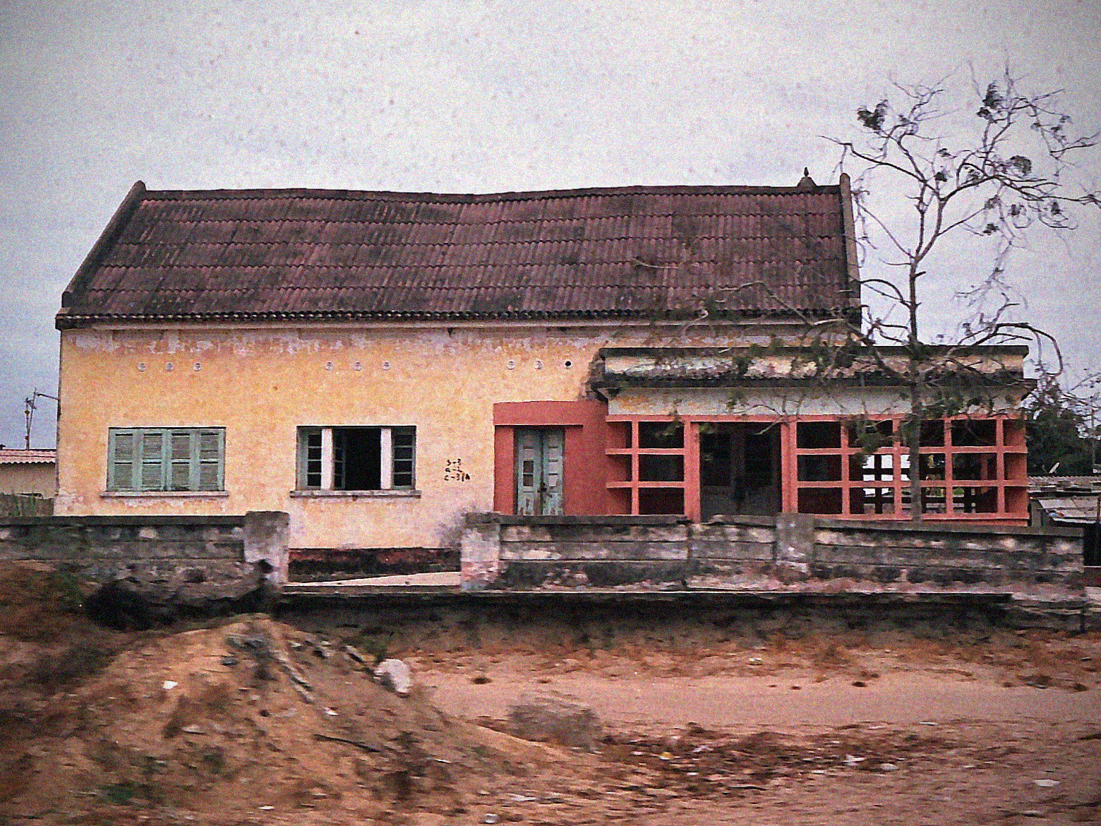 Voigtlander Vito IIa (circa 1955) Fujifilm Superia 200 Old Portuguese Colonial House in the town of Soyo (Zaire Province).